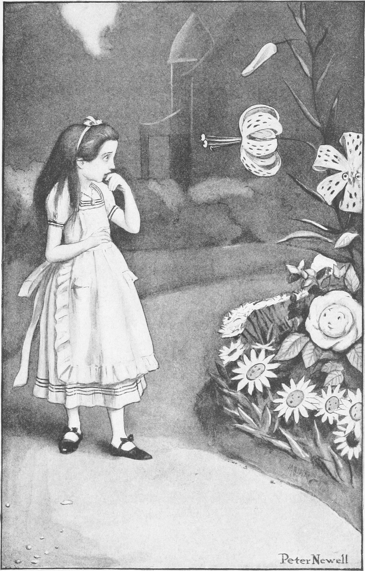 "'We can talk,' said the Tiger-lily". Illustration by Peter Newell to "Through the Looking-Glass and What Alice Found There", chapter "The Garden of Live Flowers"